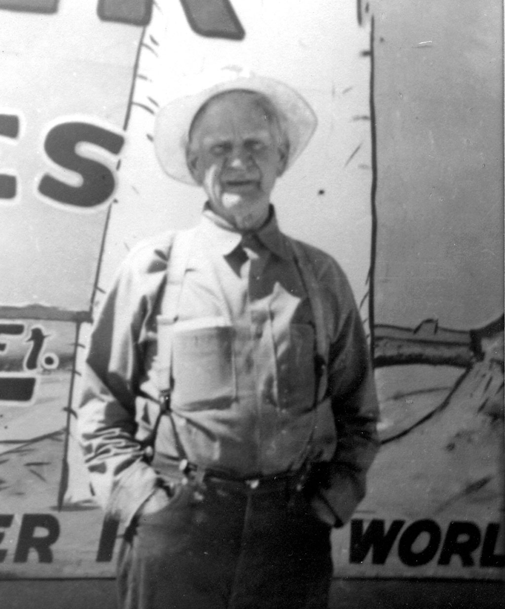 Bert Loper, Colorado river runner, stands in front of billboard. Hands in pocket. NPS. Grca 13582